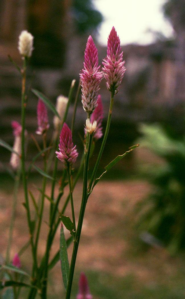 Celosia argentea, Fuchsschwanzgewächse (Amaranthaceae) - Kambodscha/Cambodia, Phnom Chisor (Prov. Takeo)